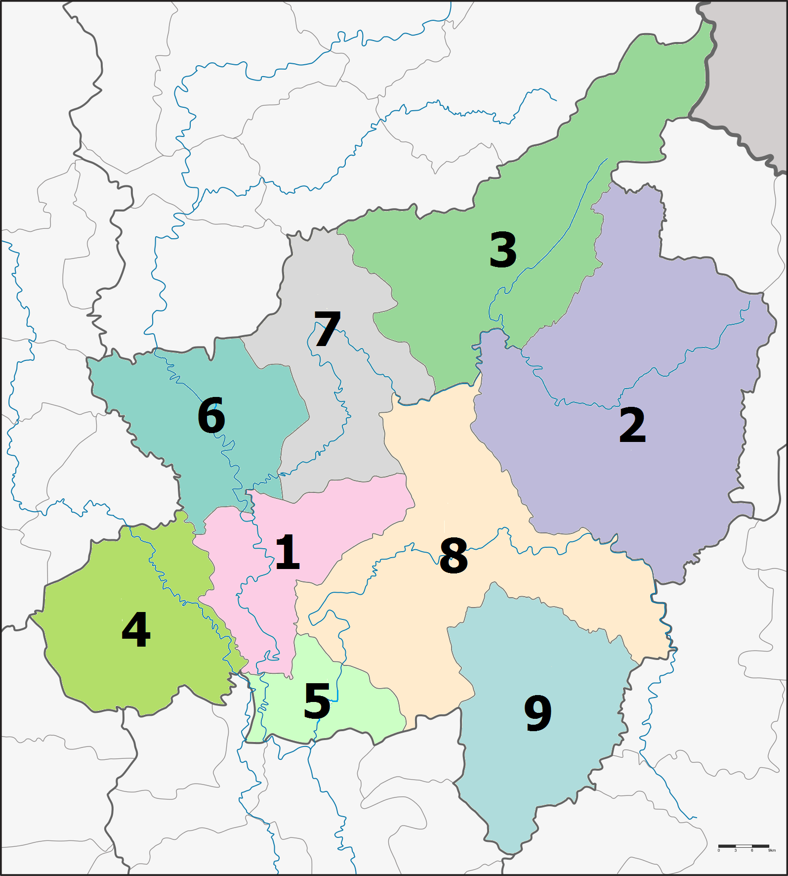 Map of nine districts of Phitsanulok province. Mueang Phitsanulok (อำเภอเมืองพิษณุโลก) Nakhon Thai (อำเภอนครไทย) Chat Trakan (อำเภอชาติตระการ) Bang Rakam (อำเภอบางระกำ) Bang Krathum (อำเภอบางกระทุ่ม) Phrom Phiram (อำเภอพรหมพิราม) Wat Bot (อำเภอวัดโบสถ์) Wang Thong (อำเภอวังทอง) Noen Maprang (อำเภอเนินมะปราง)